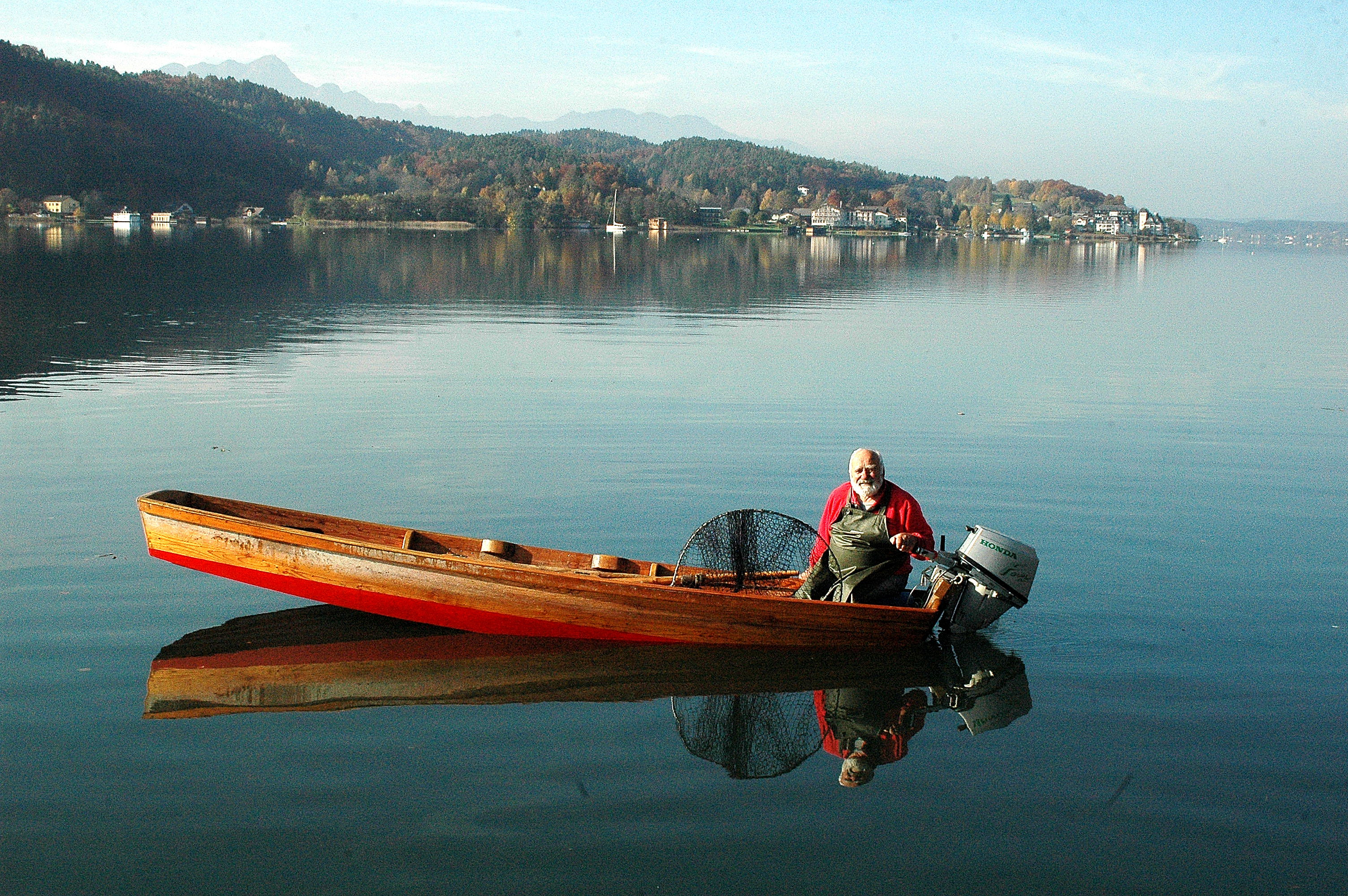 Fisherman in his boat on the Lake Woerth, Halbinselpromenade municipality Pörtschach am Wörthersee, district Klagenfurt Land, Carinthia, Austria, EU